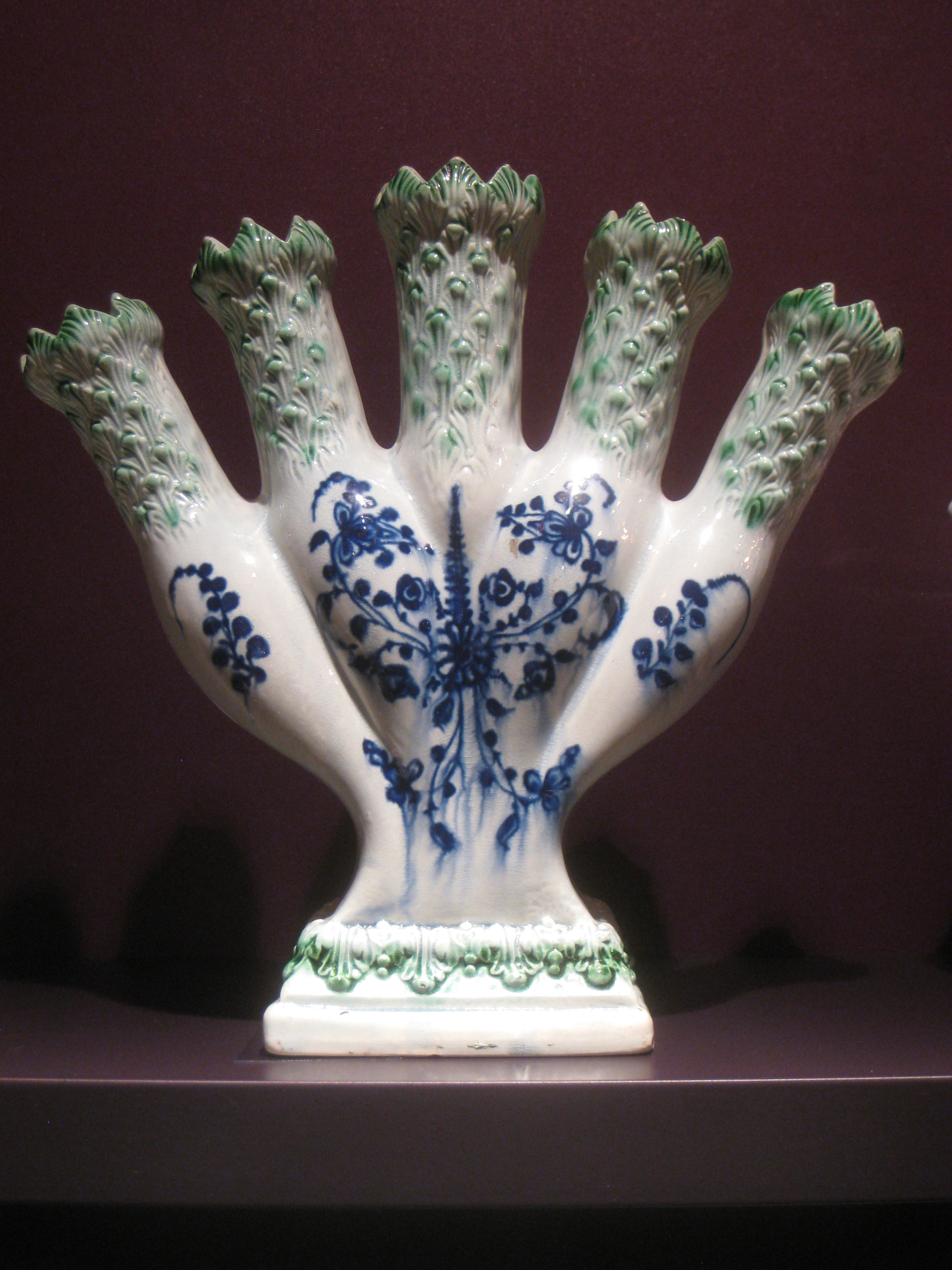 Vase, pearlware with underglaze painted blue and green enamel; Leeds Pottery, circa 1780. Pottery exhibited in the DAR Museum, National Society Daughters of the American Revolution, 1776 D Street NW, Washington, DC, USA.